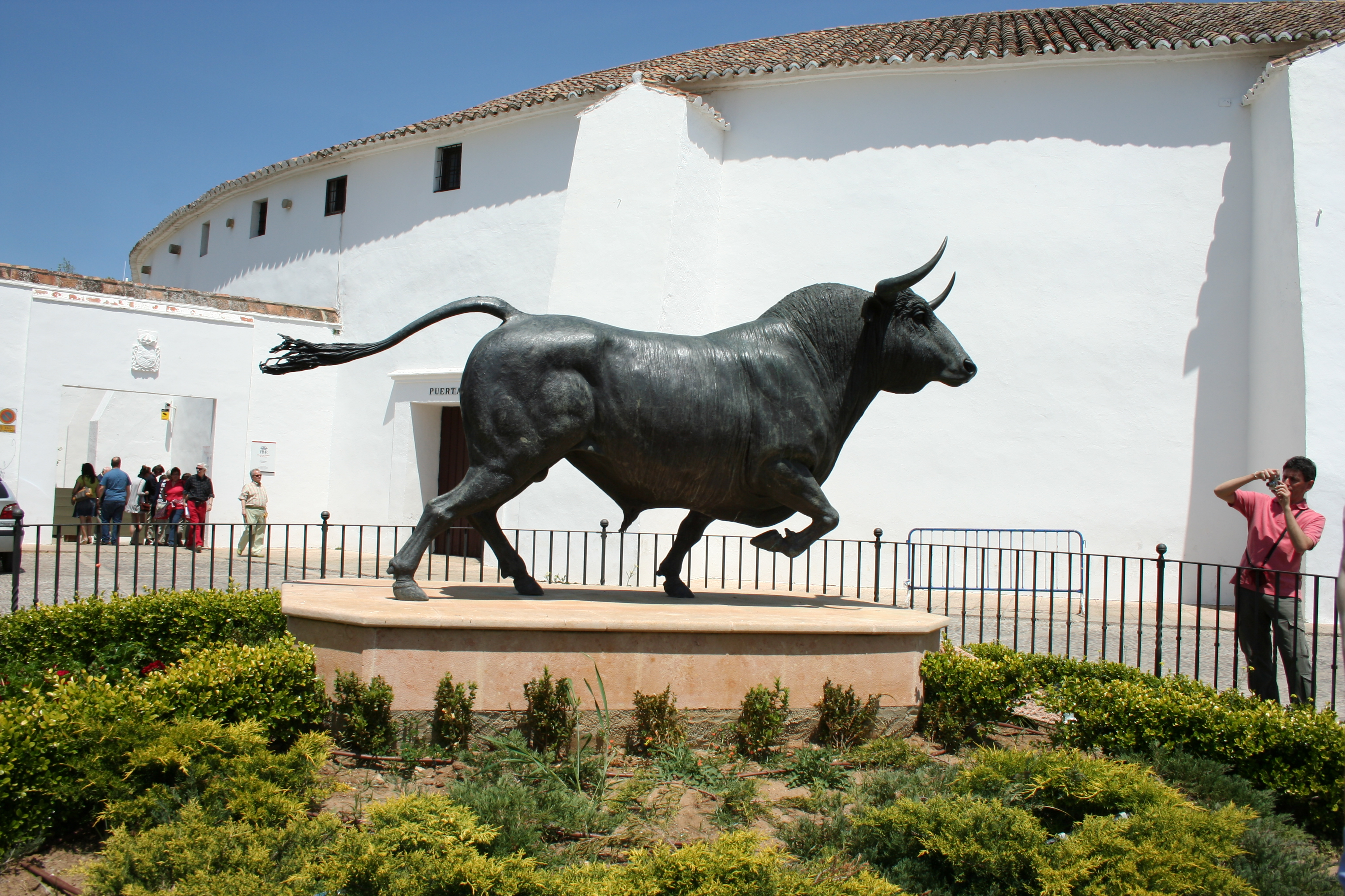 Monument to a bull outside the bullring, Ronda, Spain